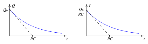 Carga e corrente num condensador a descarregar.